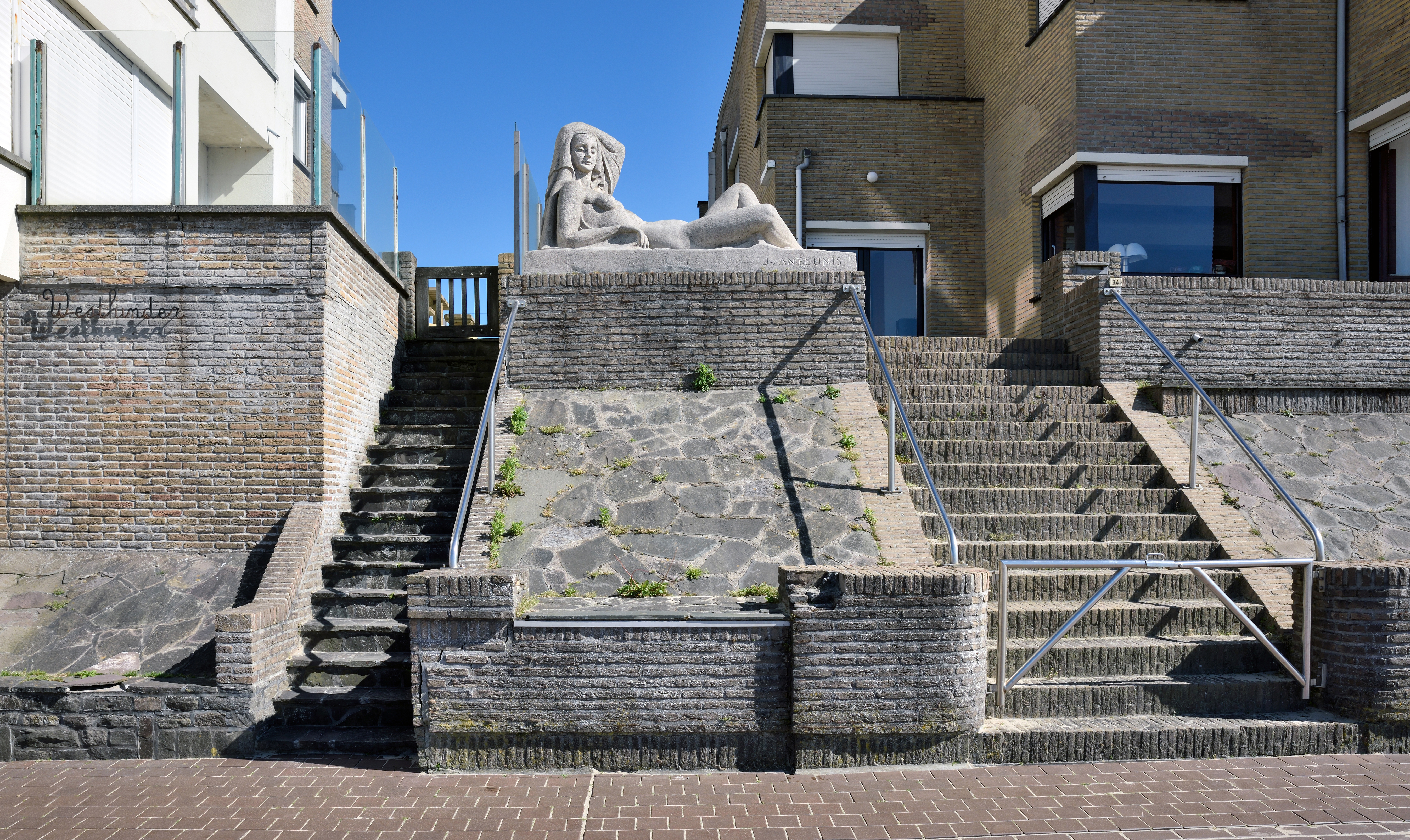 The sculpture entitled Nixe (Nixie) by Jan Anteunis (1896-1973) close to villa Goëlands (at right) on the Zeedijk (Sea dike) in De Haan, Belgium.